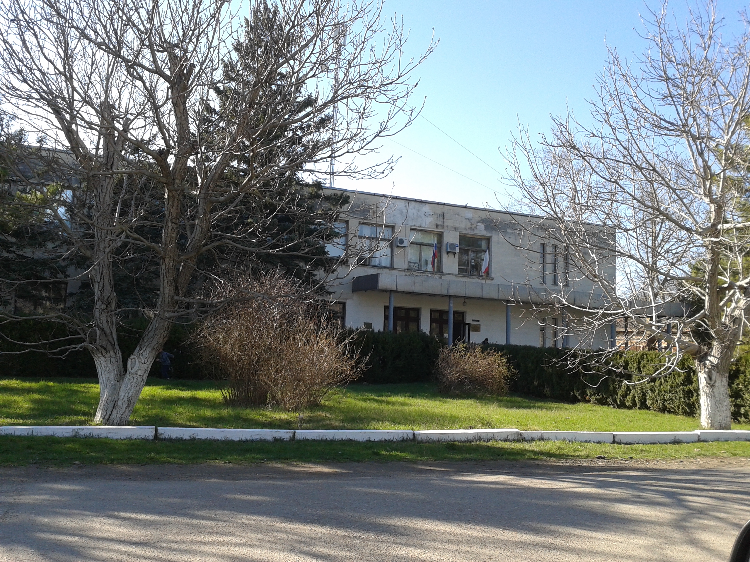 Village Shirokoe, Simferopol district, Crimea.